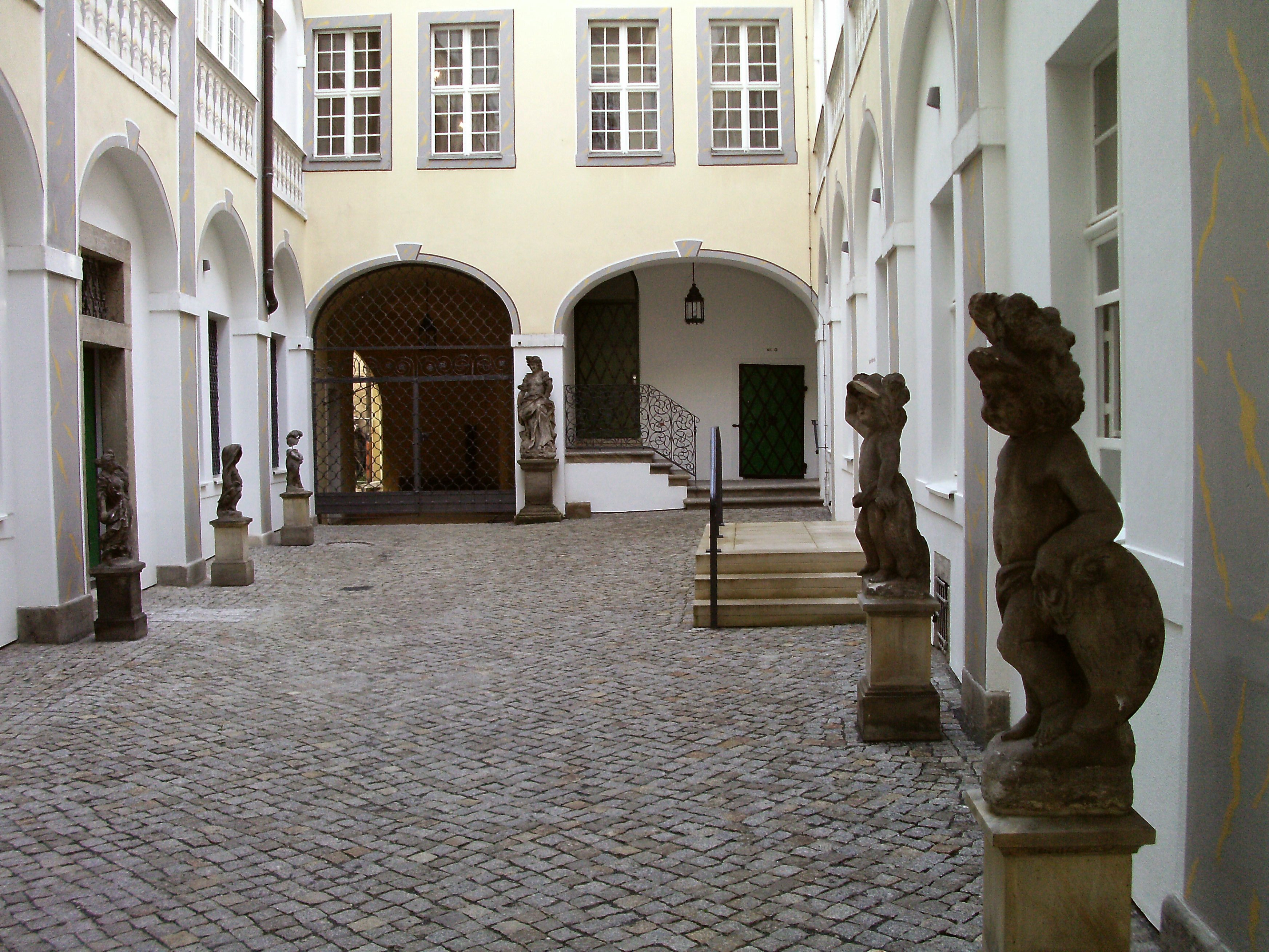 Inner courtyard of the baroque house No. 30, Neissstrasse, Görlitz (Saxony)